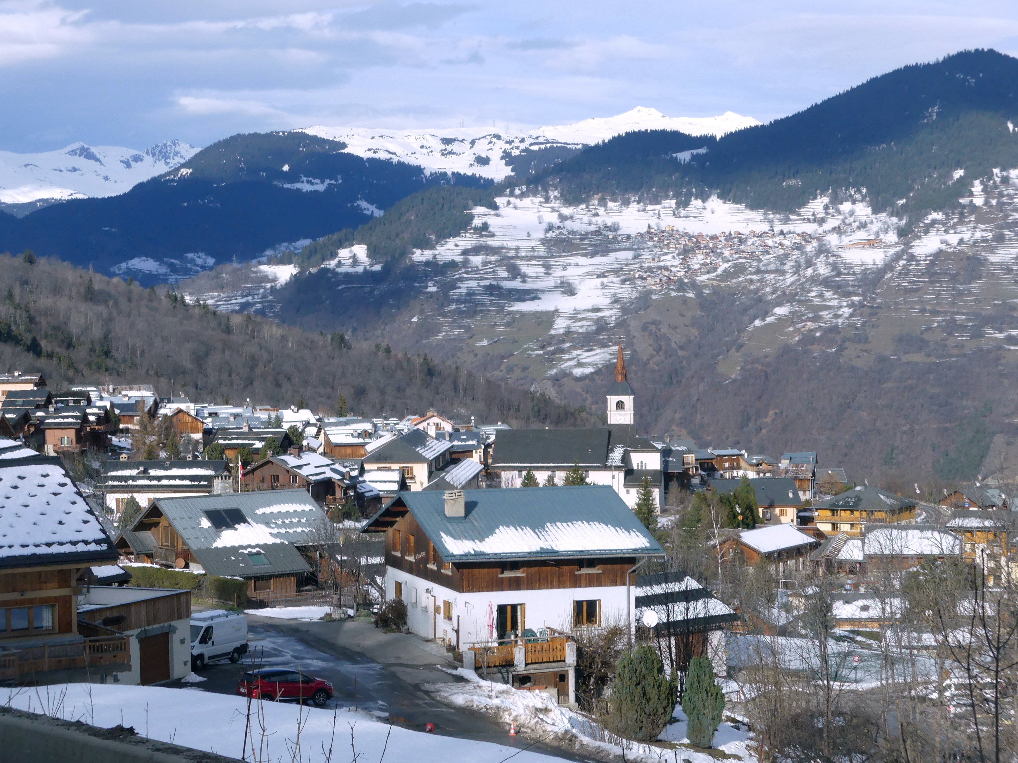 Sight, in December, of Les Allues village, in Savoie, France.